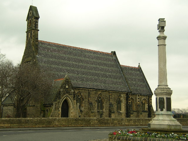 Allerton Bywater St Mary the Less & War Memorial. History of St Mary the Less, Allerton Bywater. [From ] The foundation for the church was laid in 1863 by Mrs Bland of Kippax Park. Bishop Bickerstilt consecrated it on August 10th 1865. A lydgate was erected to the memory of Hugh Smithson, the manager of the local colliery. Originally there were eight bells, dedicated in June 1920 to mark the signing of the Peace on June 28th 1919. There is now only one bell in the bell cote.